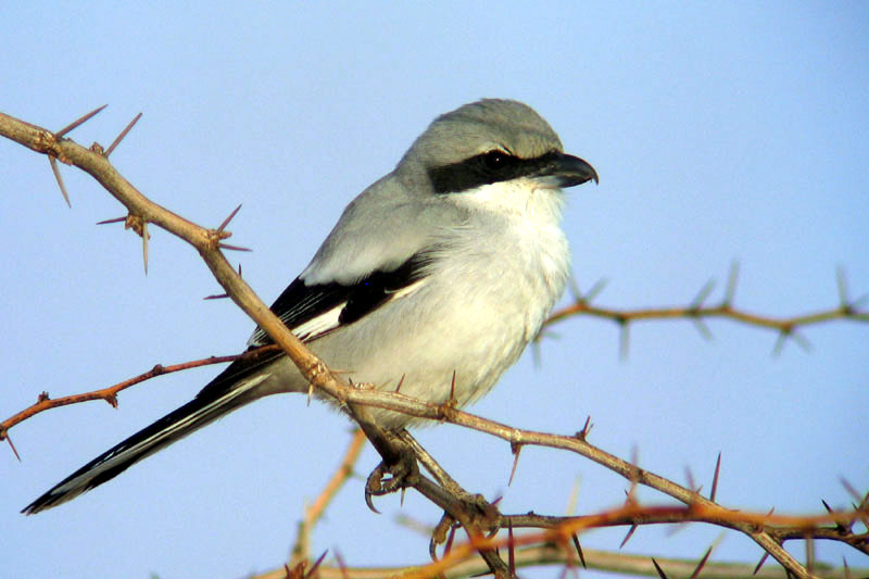 A Southern Grey Shrike Lanius meridionalis seen in Oman